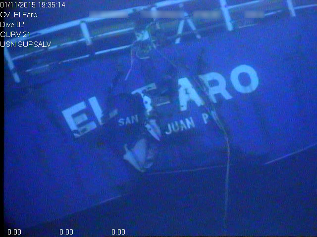 160103-N-ZZ999-550 - ATLANTIC OCEAN (Jan. 3, 2016) A video frame grab showing the stern of the of the sunken freighter El Faro on the seafloor, 15,000-feet deep near the Bahamas. The image was taken by Cable Underwater Recovery Vehicle (CURV) aboard the Military Sealift Command fleet ocean tug USNS Apache (T-ATF 172). Apache departed Norfolk, Va. on Oct. 19 to begin searching for wreckage from the missing U.S. flagged merchant vessel El Faro. The ship is equipped with several pieces of underwater search equipment, including a voyage data recorder locator, side-scan sonar and an underwater remote operated vehicle. The Navy's mission was to first locate the ship and, if possible, to retrieve the voyage data recorder - commonly known as a black box.